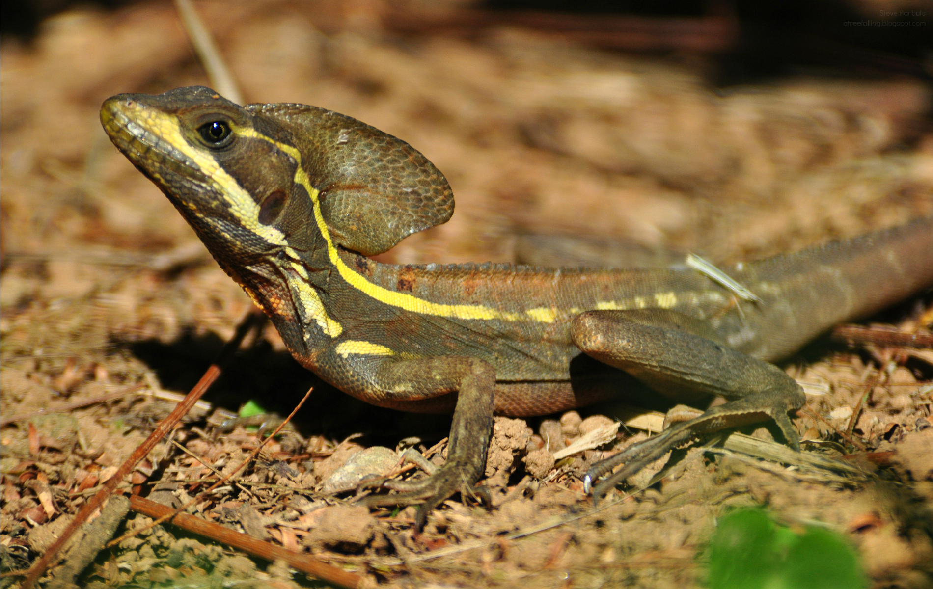 brown basilisk on sand